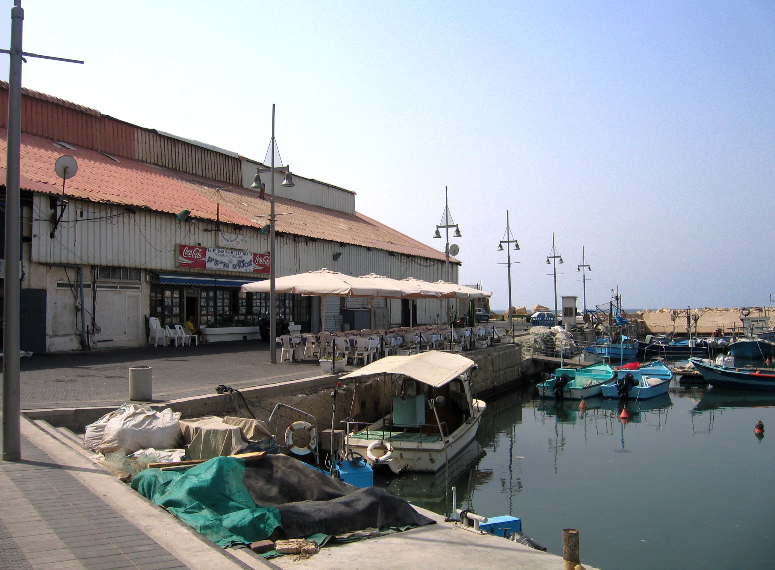 Port of Jaffa